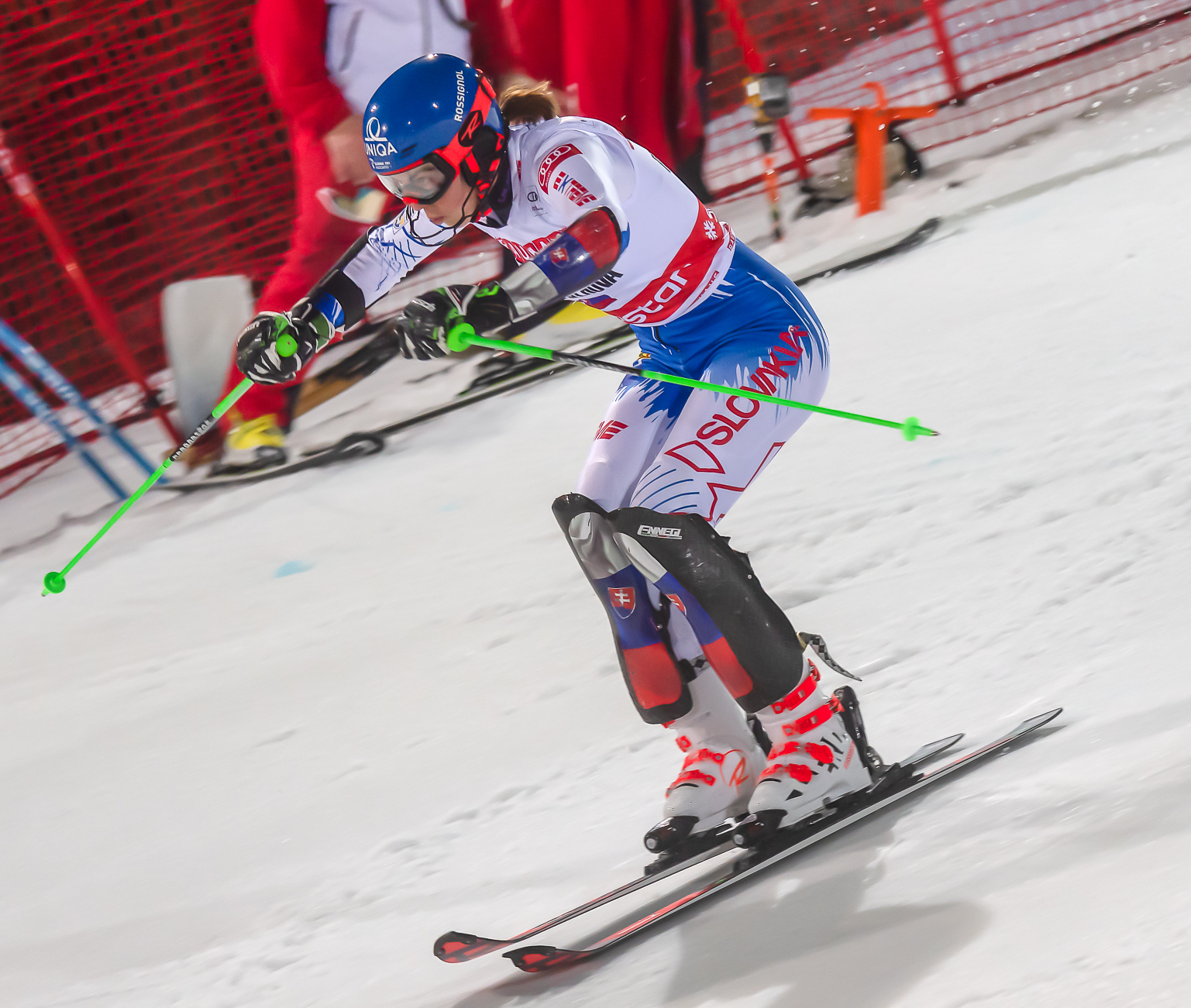 FIS Alpine Skiing World Cup in Stockholm 2019